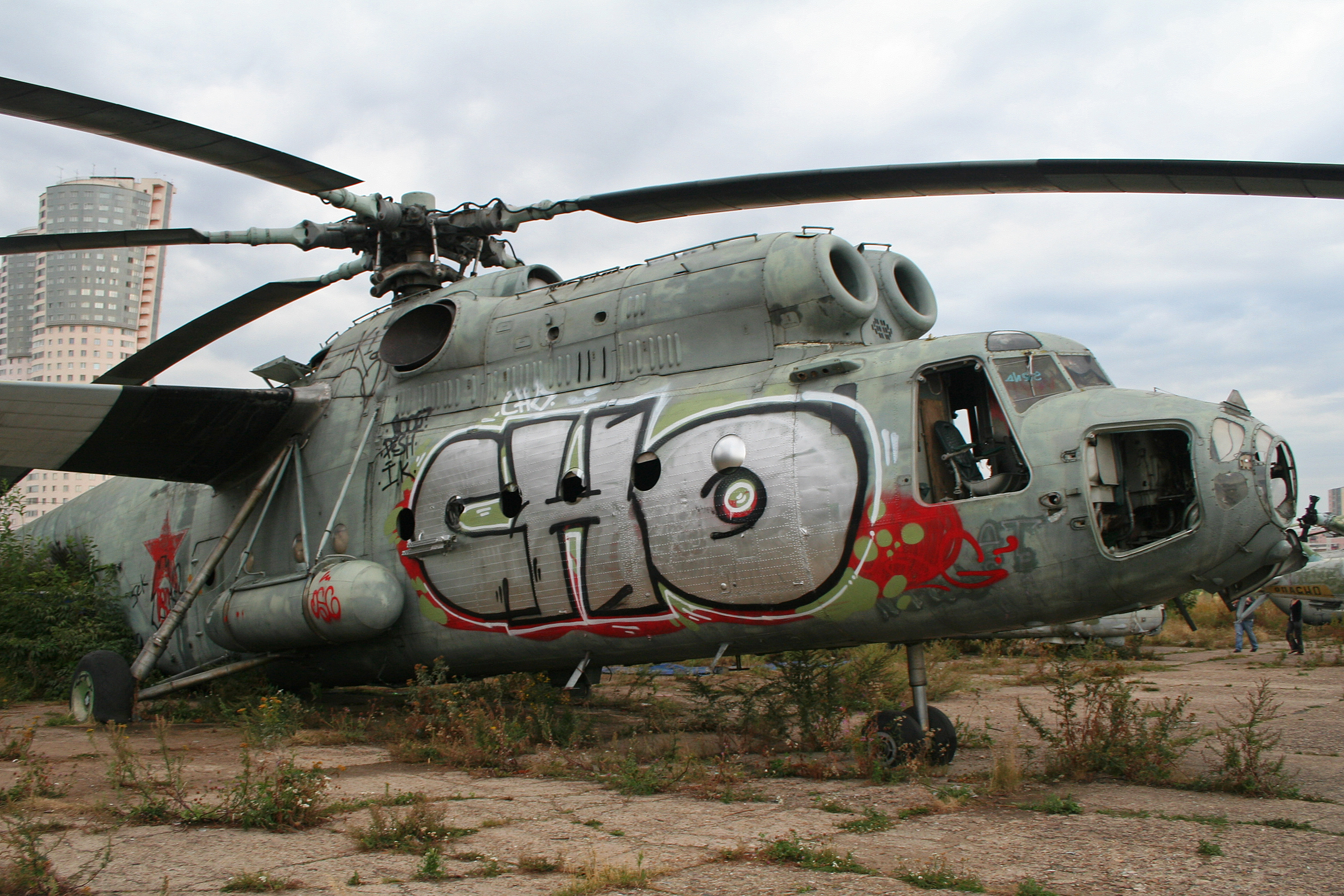 This is what greets you as you enter the 'secure' area at Khodynka. The Mi-6 'Hook', the largest remaining item, now covered in graffiti. c/n 7683209V. Previously part of the Central Aerodrome Museum at what was Frunze Central Airfield. This aircraft has now been broken up for scrap. Khodynka, Moscow. 11-8-2012